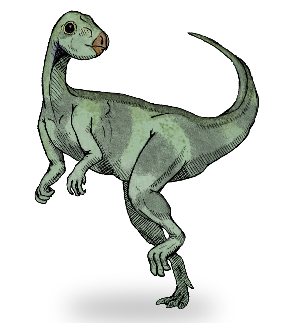 sketch of qantassaurus v.1 by me user debivort